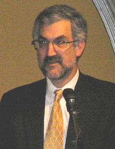 Daniel Pipes at a speech in Copenhagen 11th Marts 2007 on receiving his "Free Speech Award".